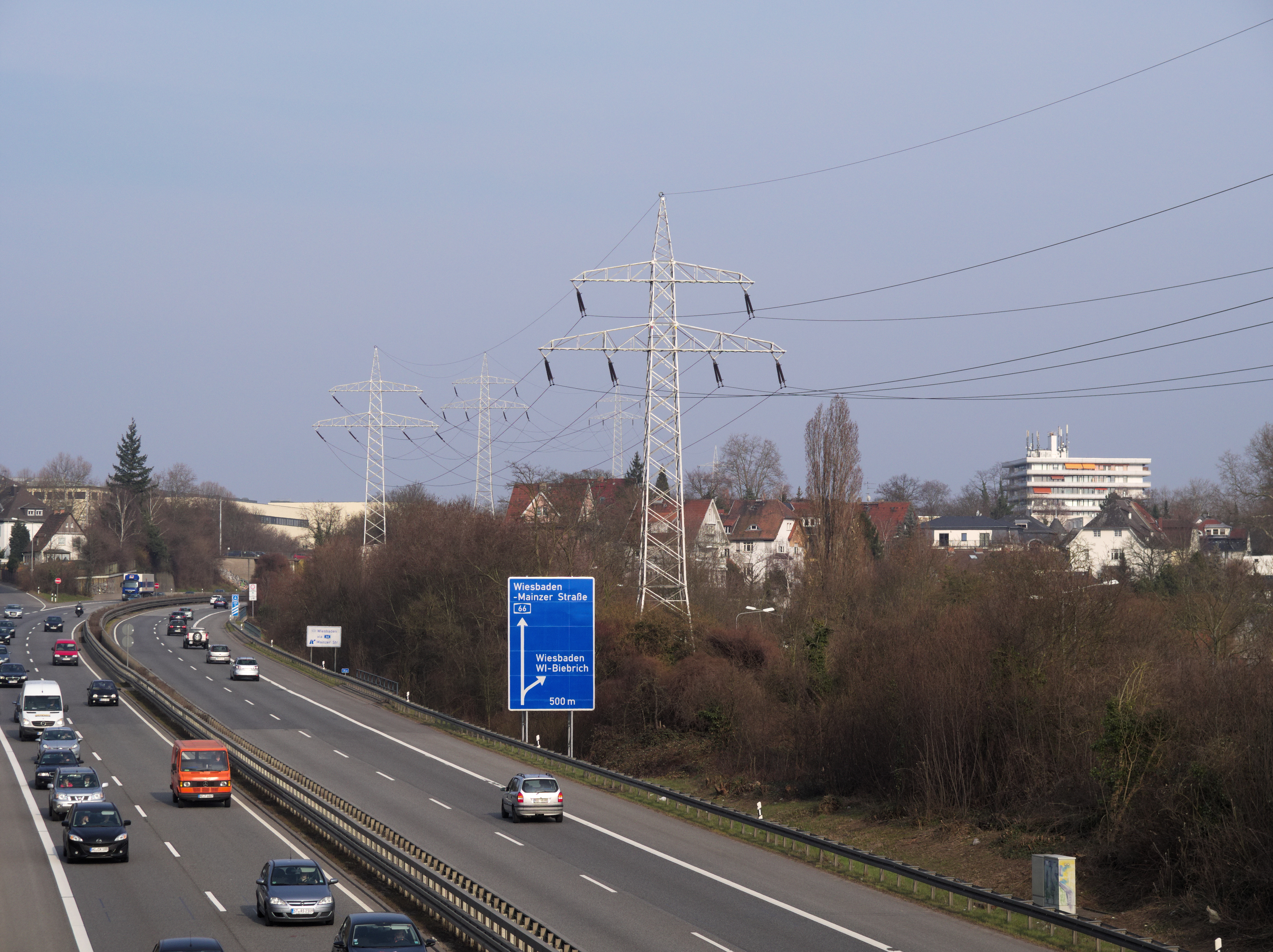 Transmission towers with askew insulators due to change of direction of the line